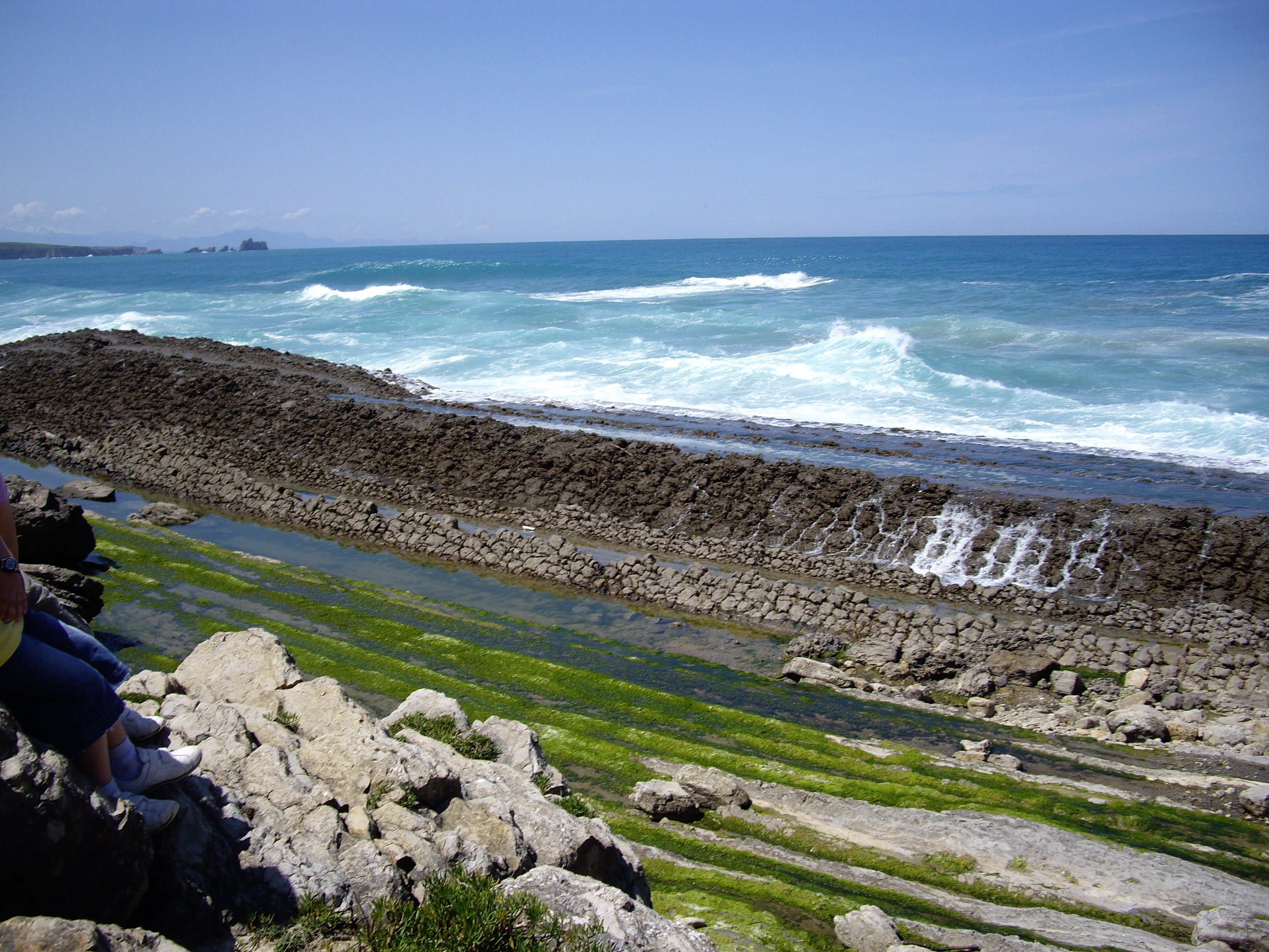 Flysch on the Cantabric coast, near Liencres, in Piélagos (Cantabria, Spain)